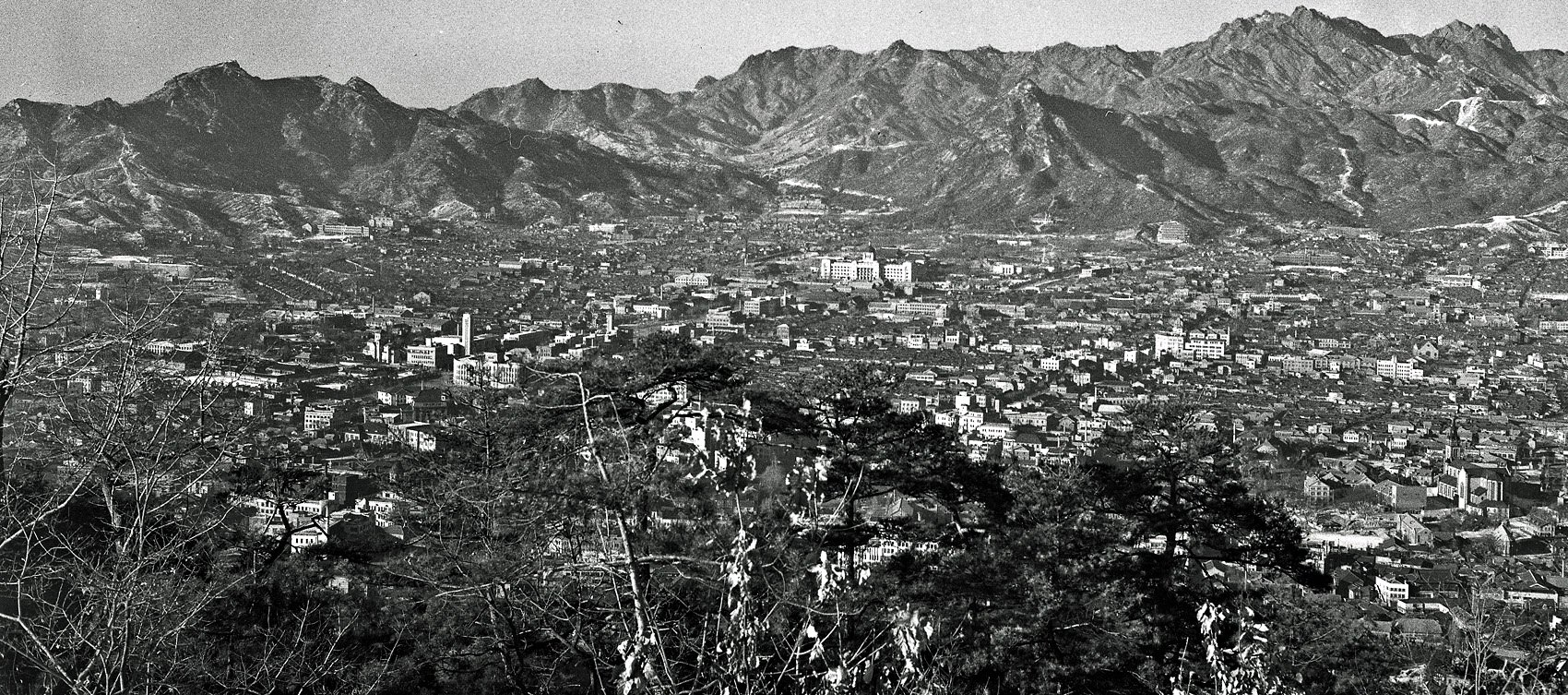 Seoul, Korea as viewed from a hill in December 1945. I scanned a 4x5 negative that was developed in the primitive darkroom we set up in an old school to handle personal photos. It looked good enough to post when viewed large.